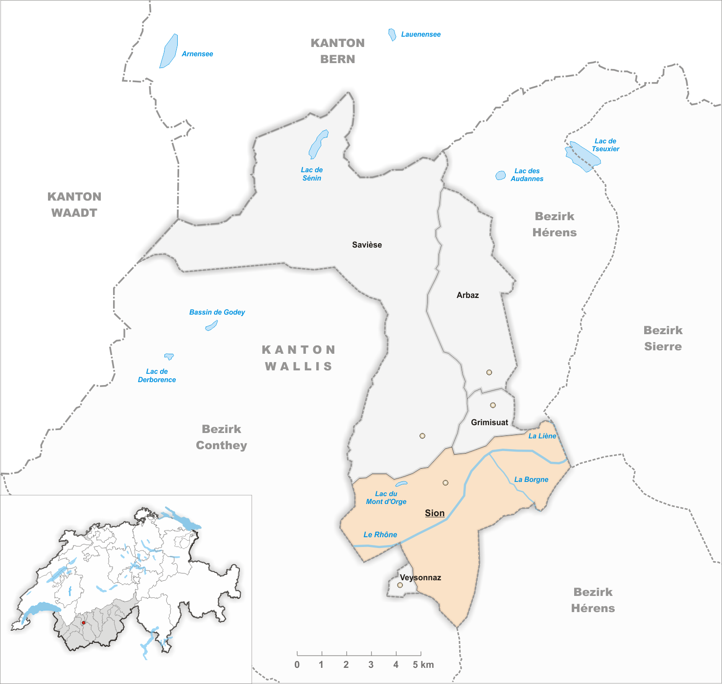 Municipality Sion